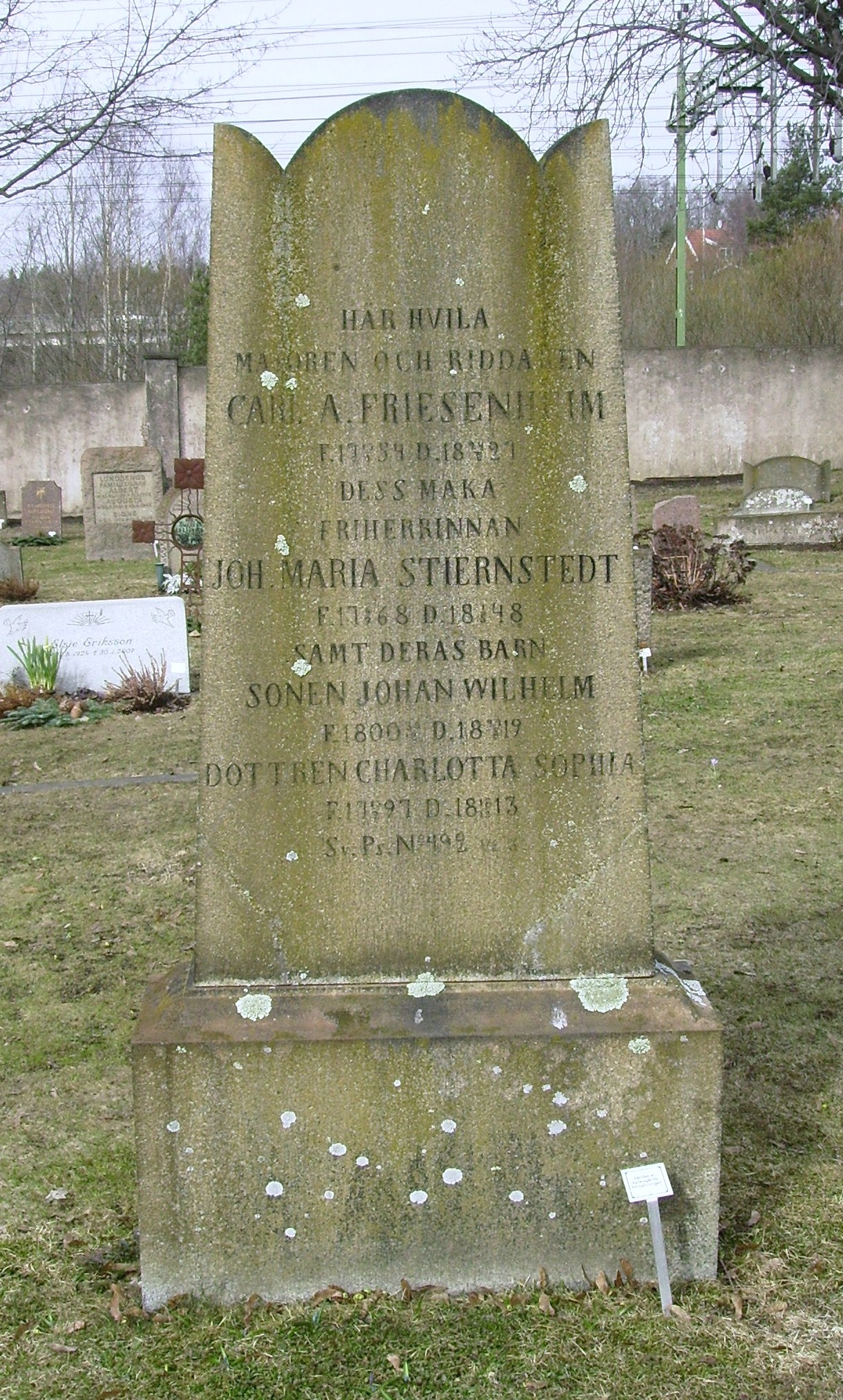 Picture of Carl Albrekt Friesenheims (1754-1827) grave at Huddinge kyrkogård